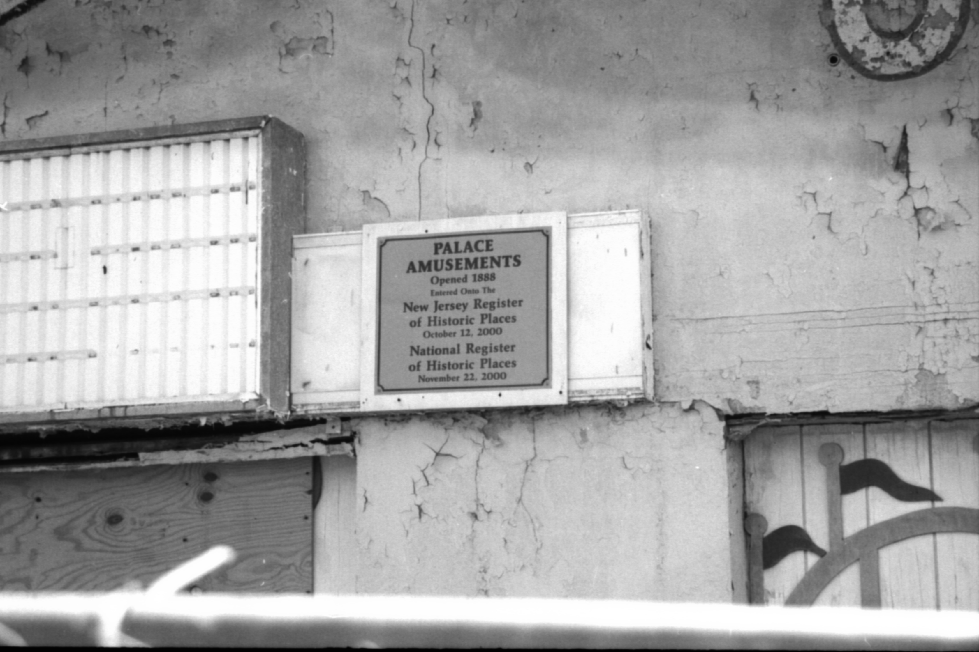 Palace Amusements